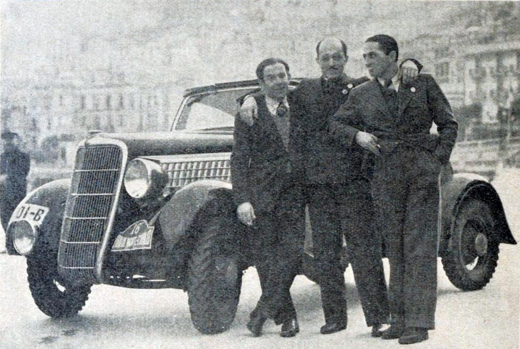 Petre G. Christea (center) and co-driver Ionel Zamfirescu (right), winners of the 1936 Rallye Monte Carlo. The third person may be their mechanic Gogu Constantinescu. The car is a Ford Type 48 2-seater convertible with a V8 (where would the mechanic sit). They had started in Athens.